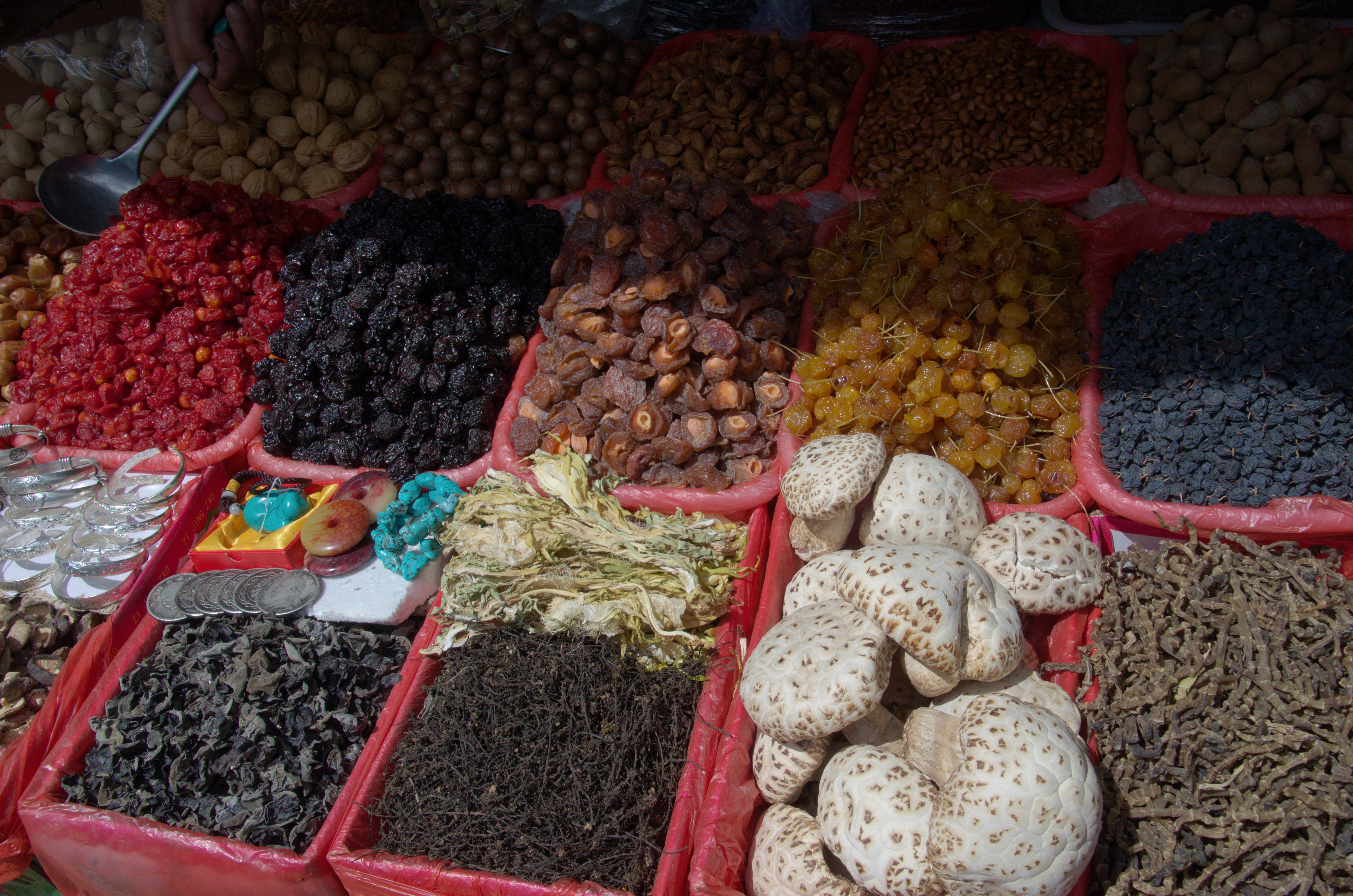 Dried food (fruits, legumes, mushroom), few silver bracelet, precious stone stuff and Republic of China on mainland China time coins (there is wrote on the coin:《中華民國三年》 Republic of China 3rd year) in a little Qiang people market near the center of Wenchuan County, Sichuan province, People Republic of China.